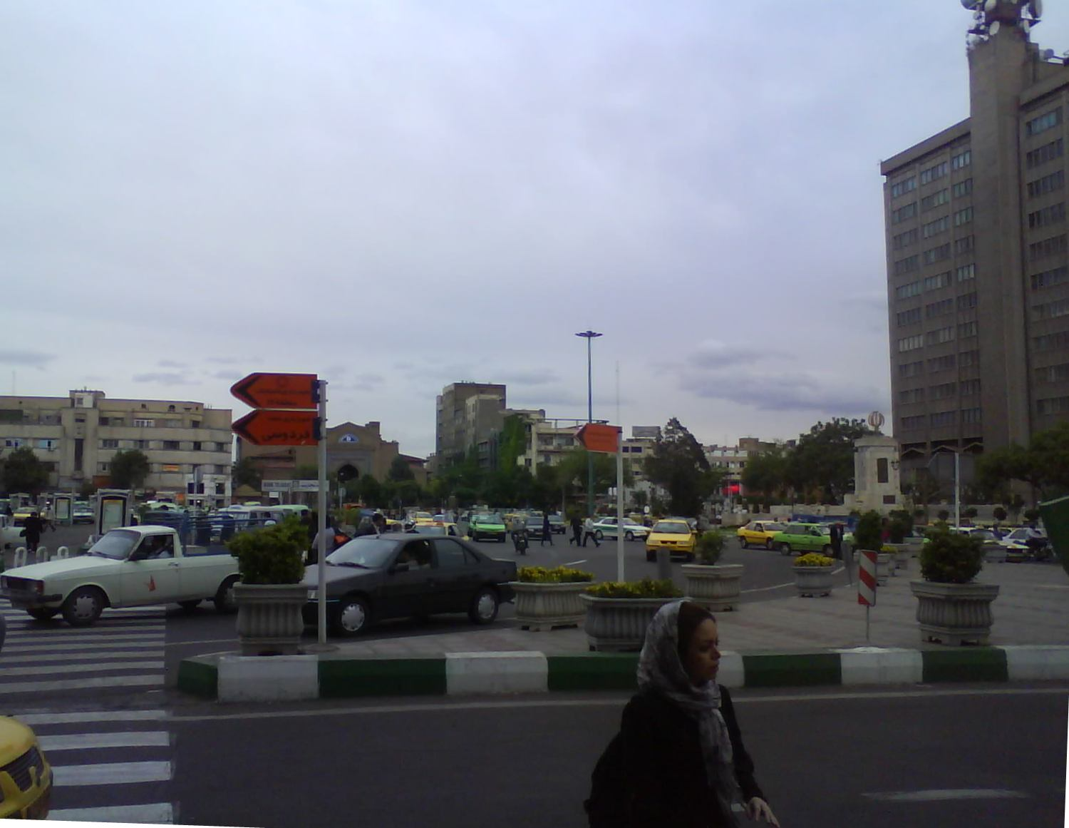 Tupkhane square in Tehran